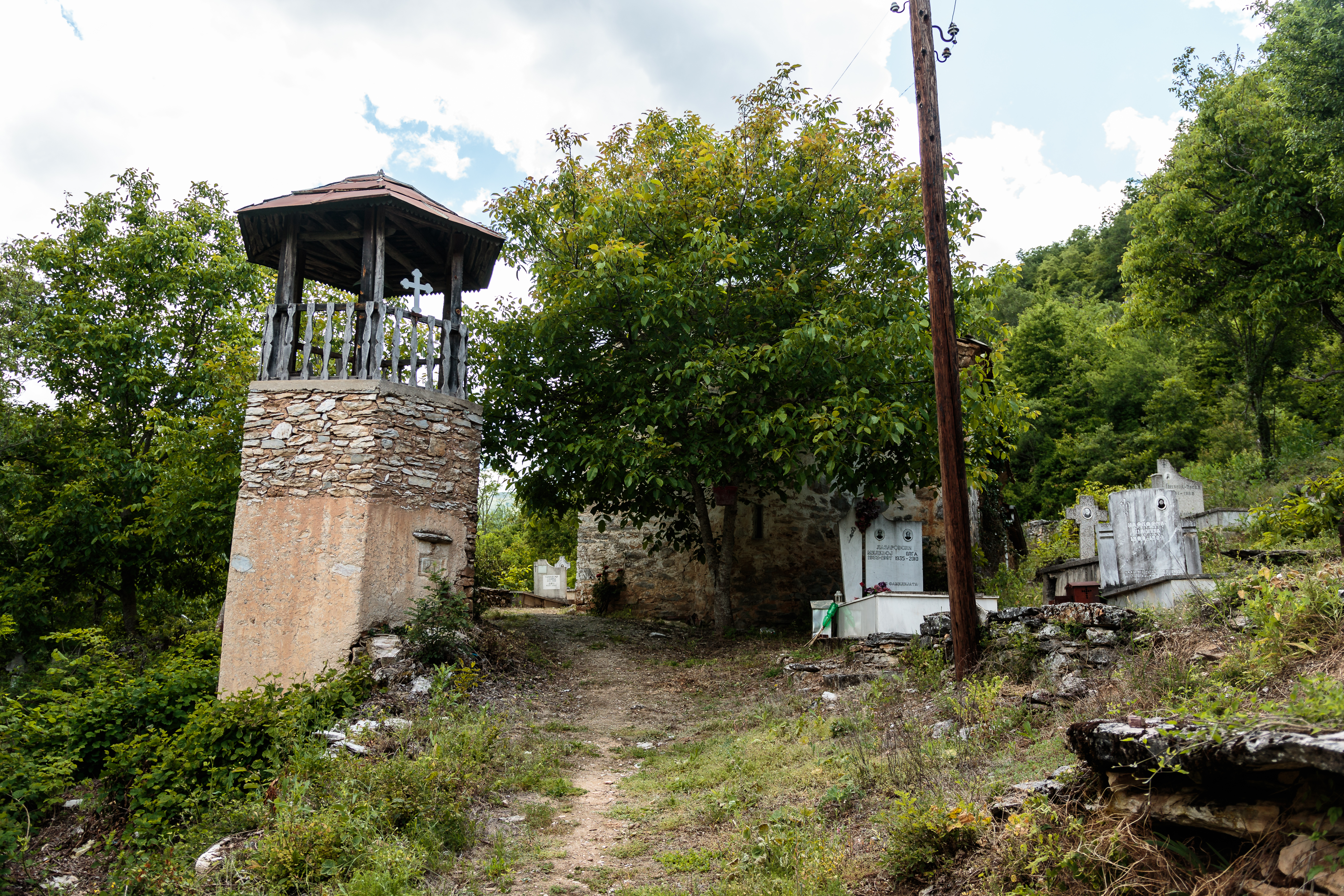 View of the St. Nicholas Church in the village Babino